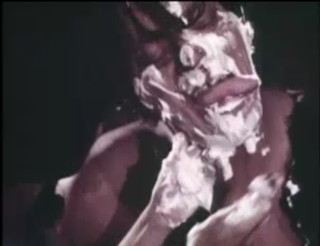 Richard Kiel in the infamous "shaving cream licking" in "Eegah"